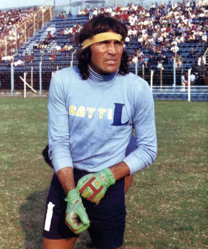 Argentine goalkeeper Hugo Gatti while playing for Boca Juniors.